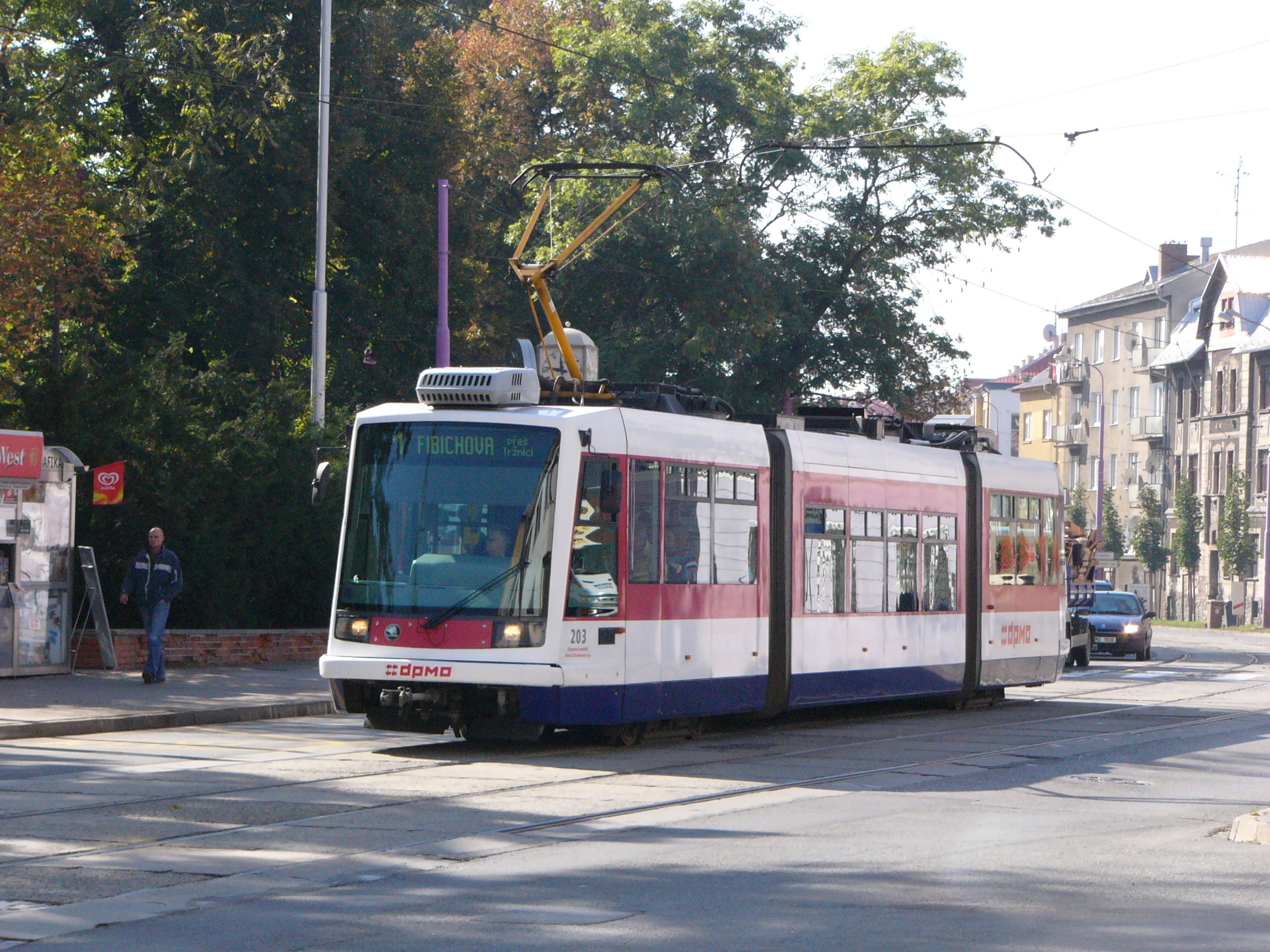 Tram Škoda 03 T (Škoda Astra) in Olomouc (the Czech Republic).